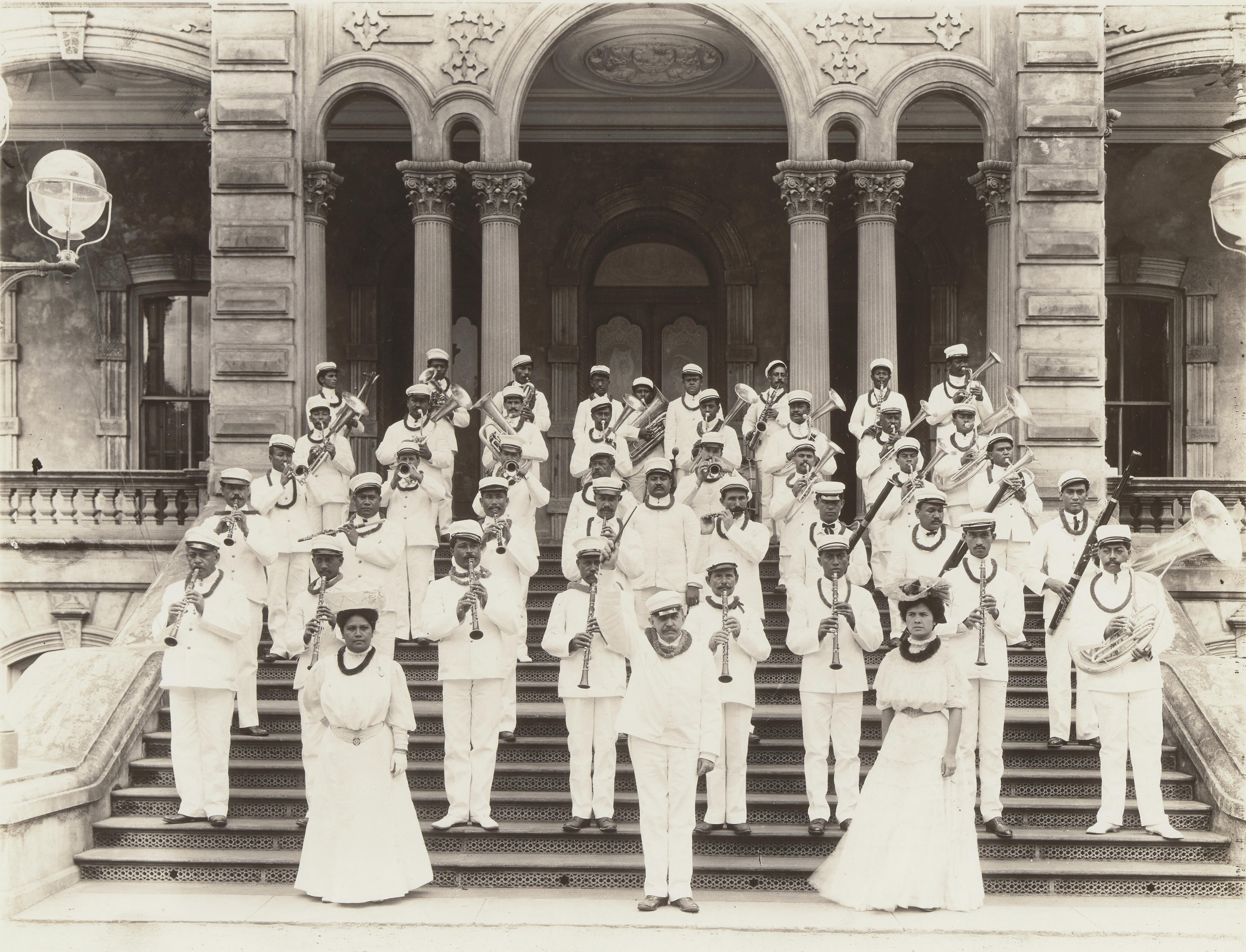 The Royal Hawaiian Band on the steps of 'Iolani Palace prior to departure for the Mainland in 1906. Front row (left to right): Nani Alapai, Henry Berger, and Lei Lehua.